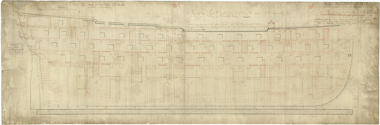 Plan of a 98-gun ship of the line. The three ships built to this design include 'Dreadnought' (1801); 'Neptune' (1797); 'Temeraire' (1798)